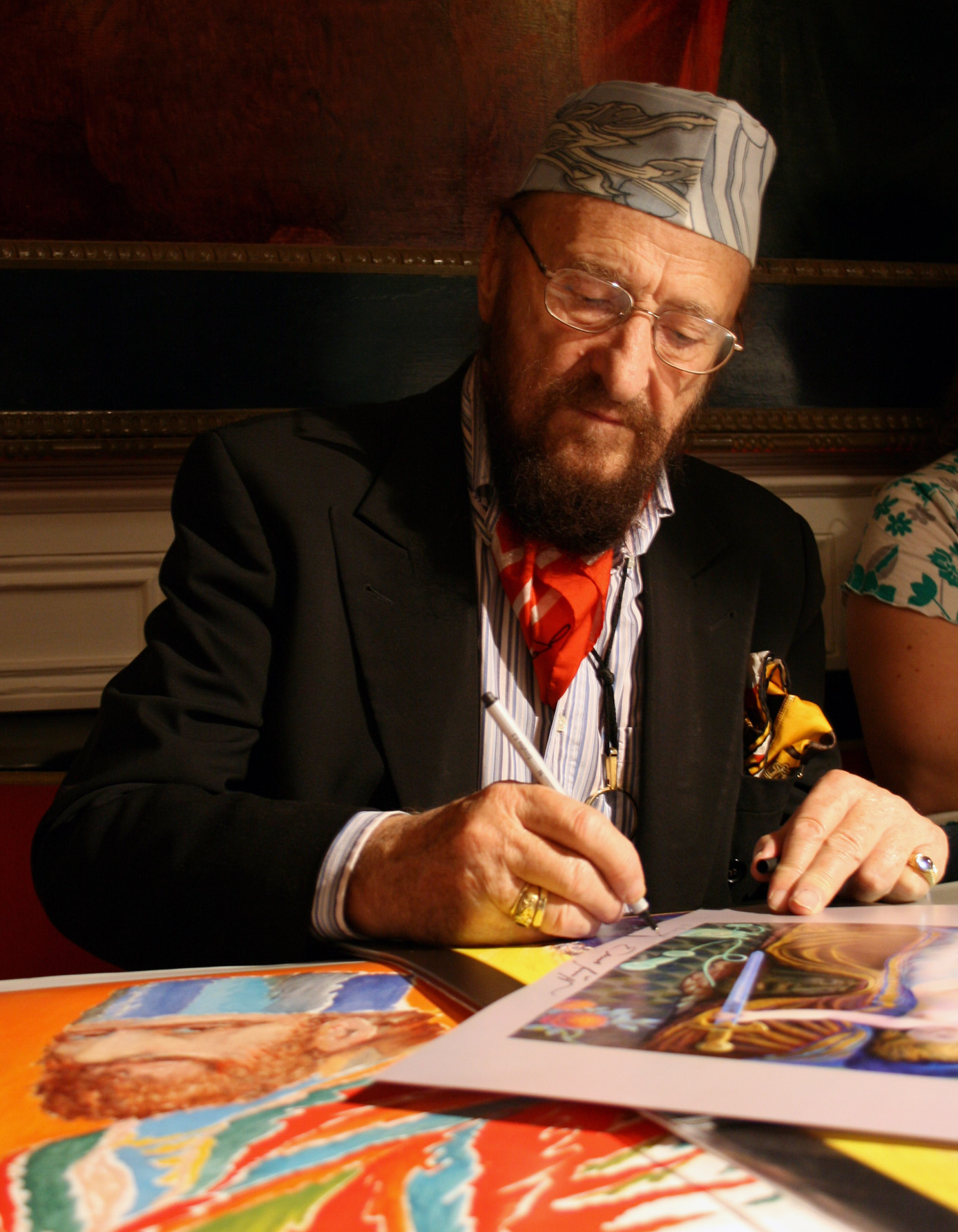 Austrian painter and sculpor Ernst Fuchs (Vienna 2007